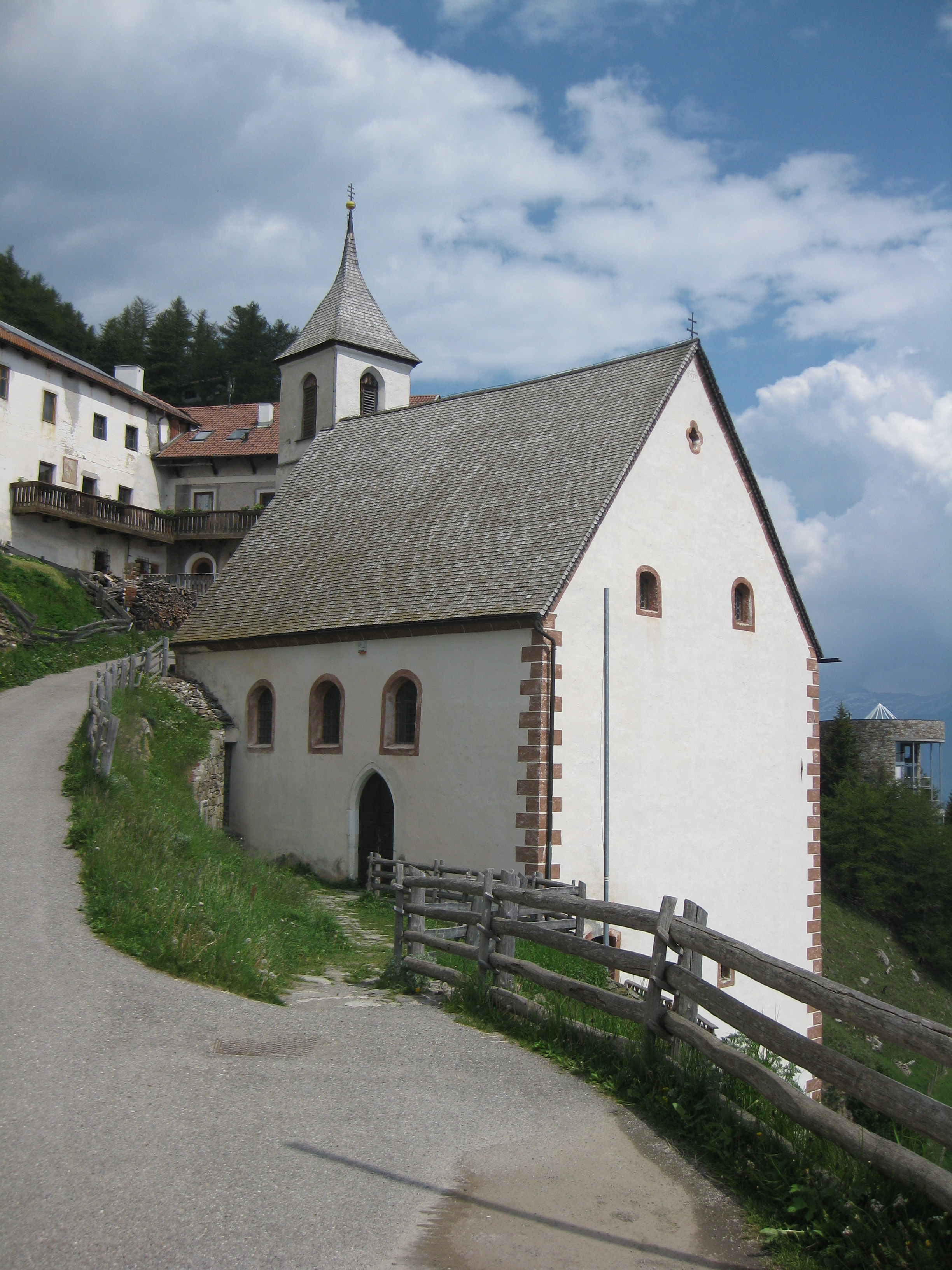 The church of St. Martin im Kofel (municipality of Latsch, South Tyrol)